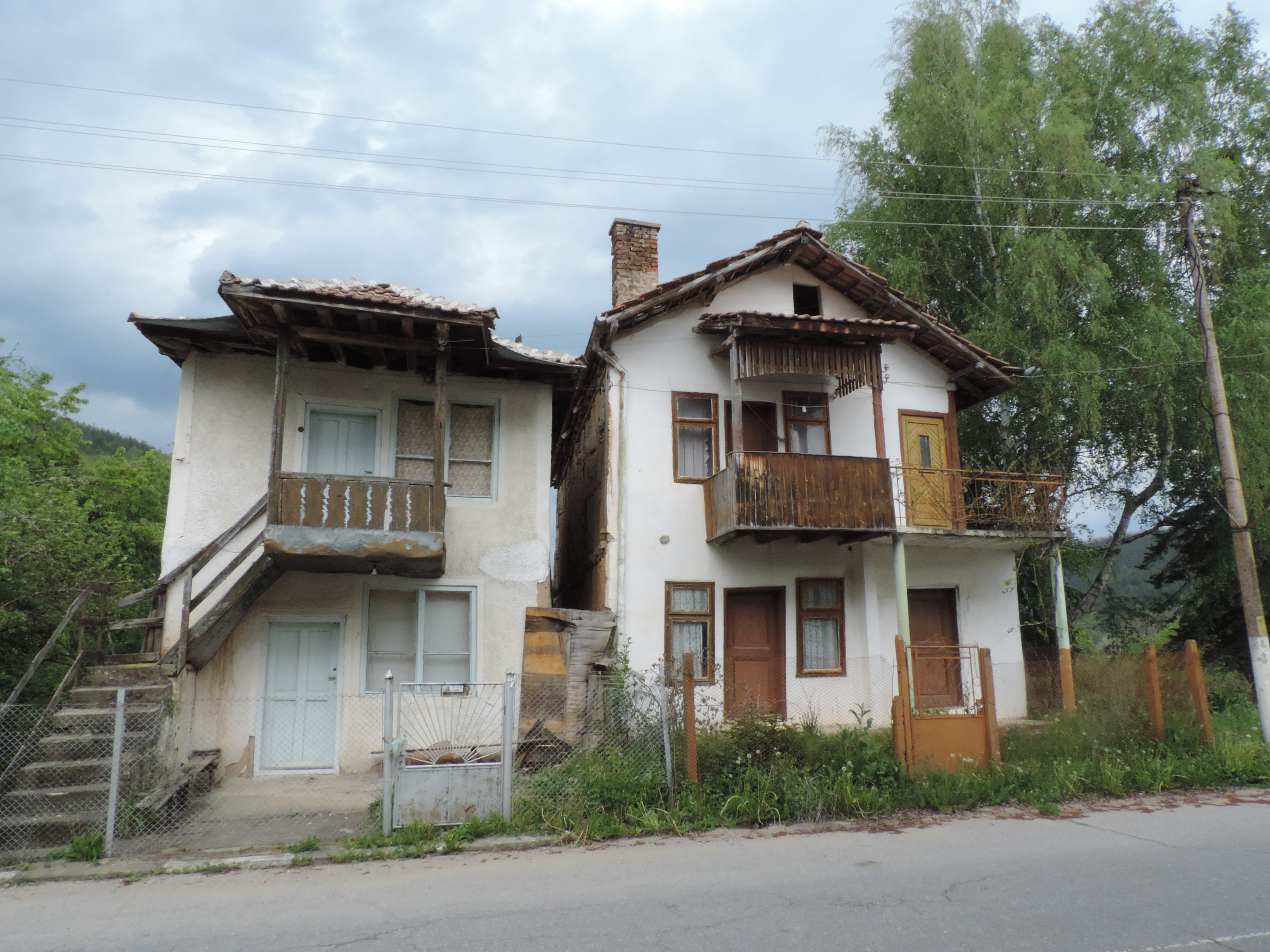 A house in village Dolno Uyno, Kyustendil Province, Bulgaria